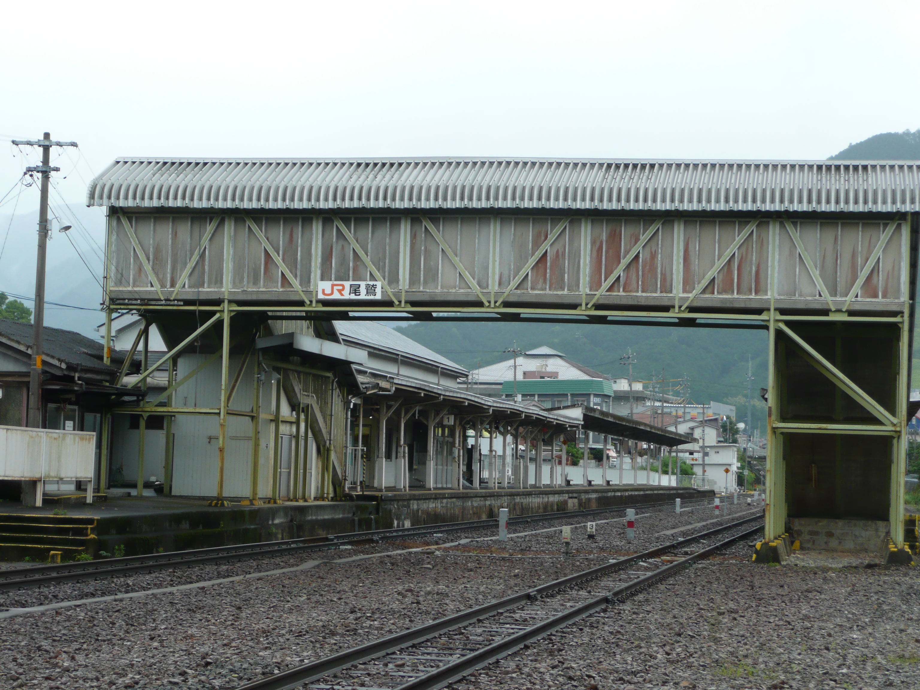 Owase Station platform